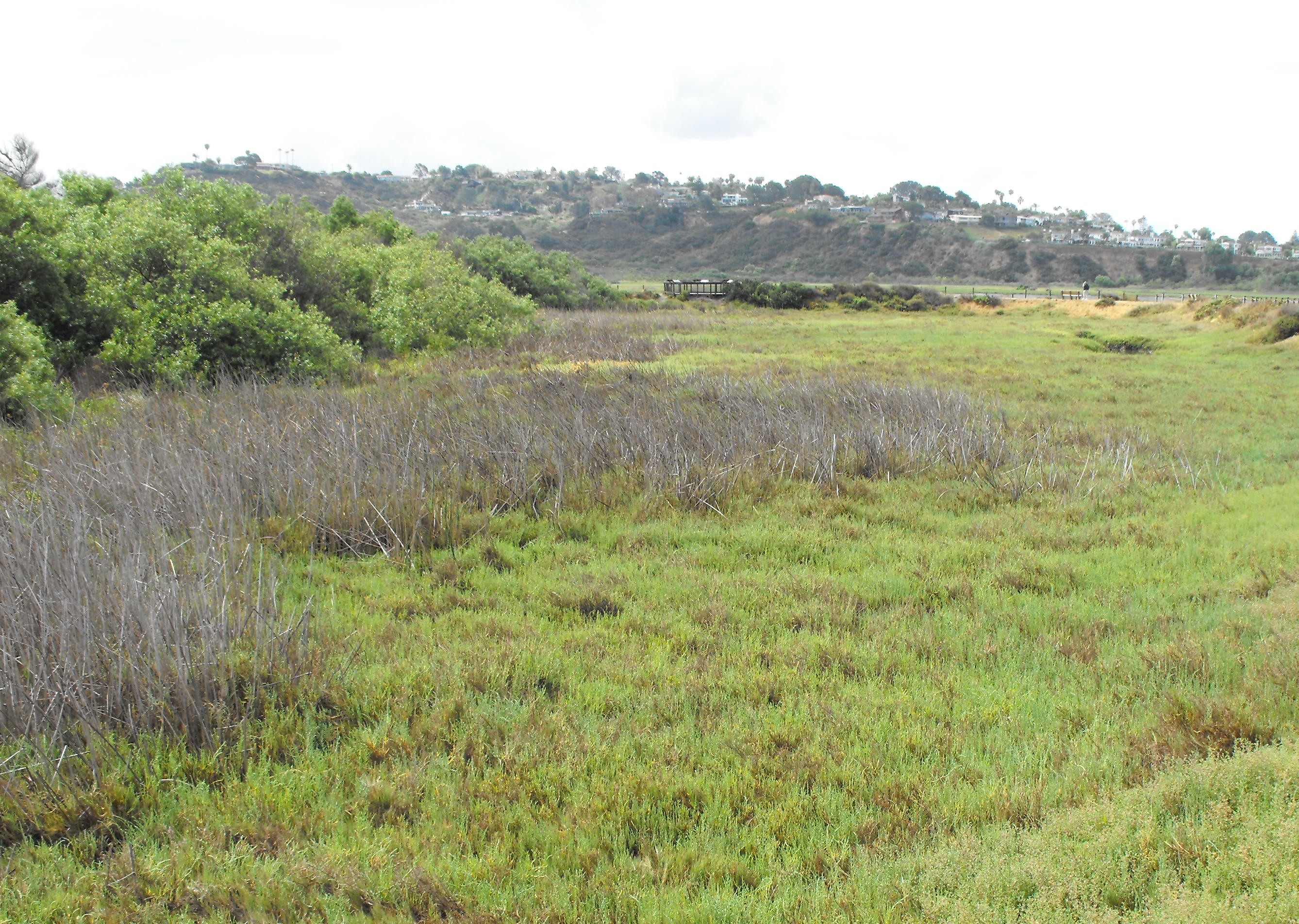 Brackish marsh area of San Elijo Lagoon Ecological Reserve in Cardiff, San Diego County, California, USA.